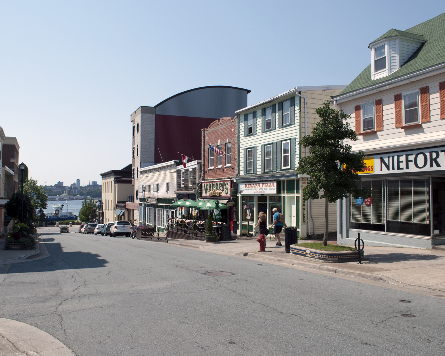 Streetscape shot of Downtown Dartmouth